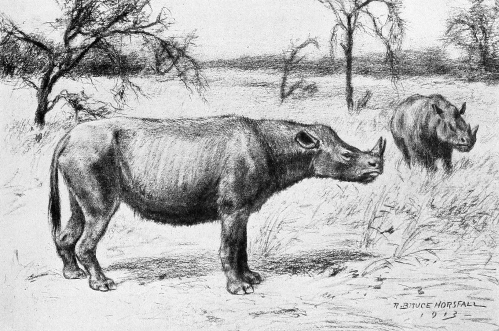 Life restoration of Menoceras arikarense (formerly Diceratherium cooki) from W.B. Scott's "A History of Land Mammals in the Western Hemisphere." New York: The Macmillan Company.